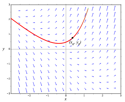 Campo de direções da equação y ′ = y + x {\displaystyle y'=y+x} , e a solução que passa pelo ponto o ( x 0 , y 0 ) {\displaystyle (x_{0},y_{0})}